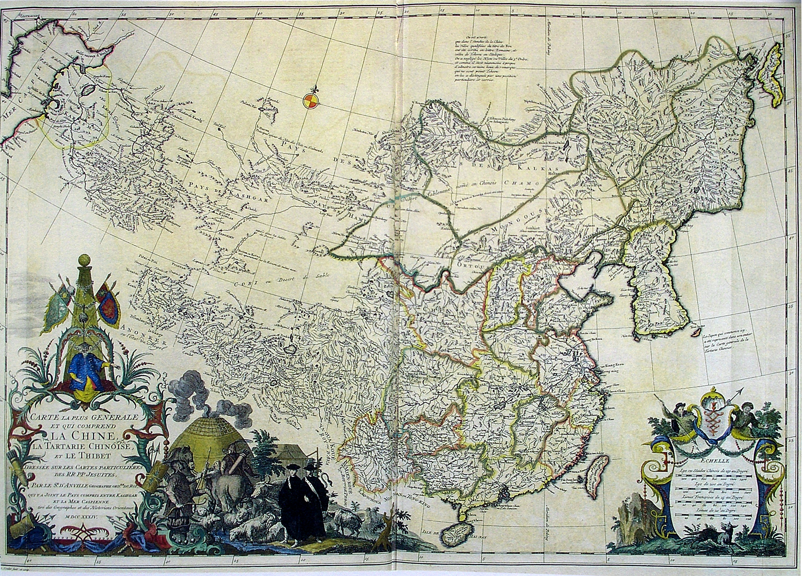 A most general map, including China, Chinese Tartary, and Tibet, based on individual maps of the Jesuit fathers. The map gives 1734 as the year, but the modern HKUST publishers say 1737